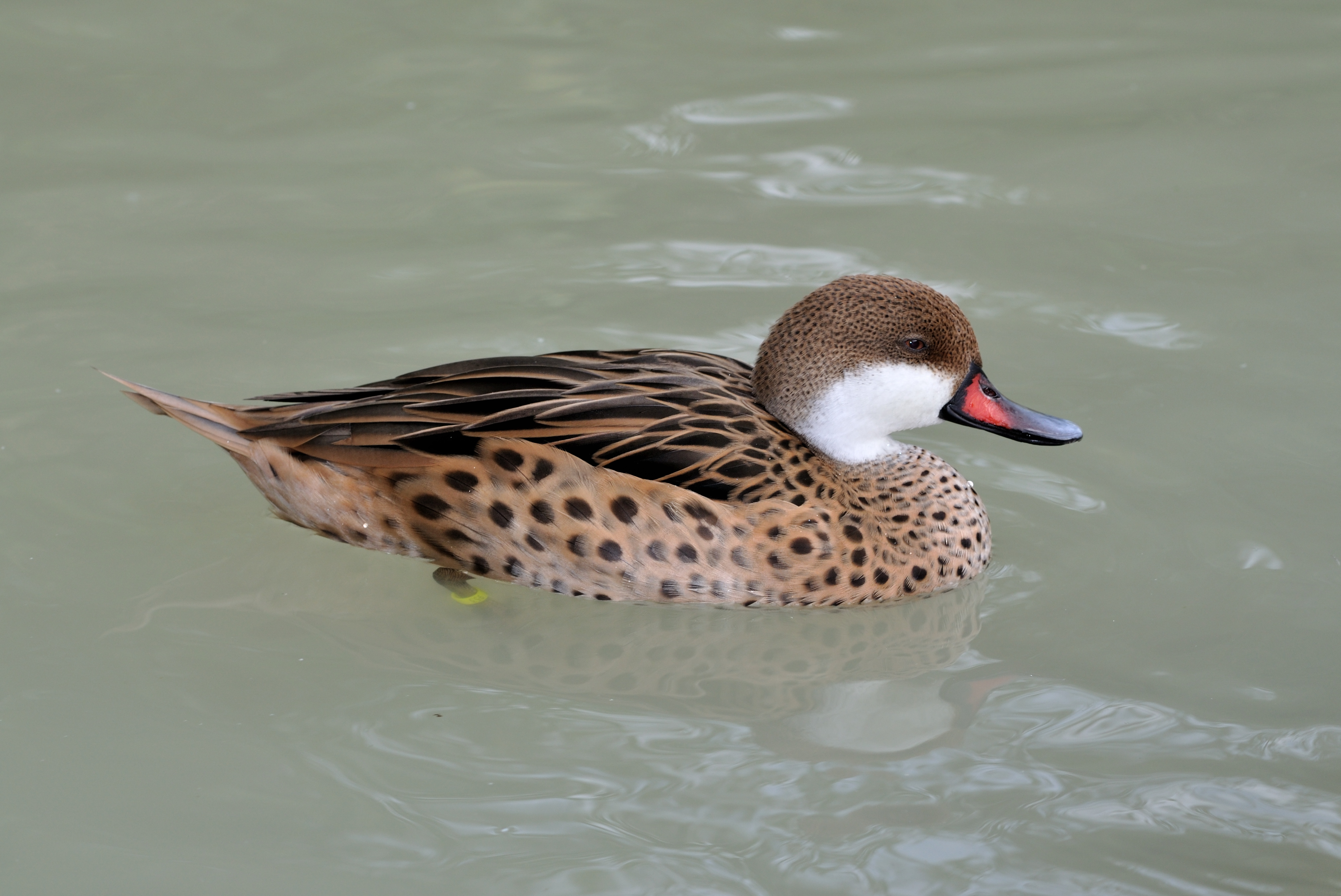 White-cheeked Pintail (Anas bahamensis) in the Tierpark Hellabrunn, Munich, Germany.